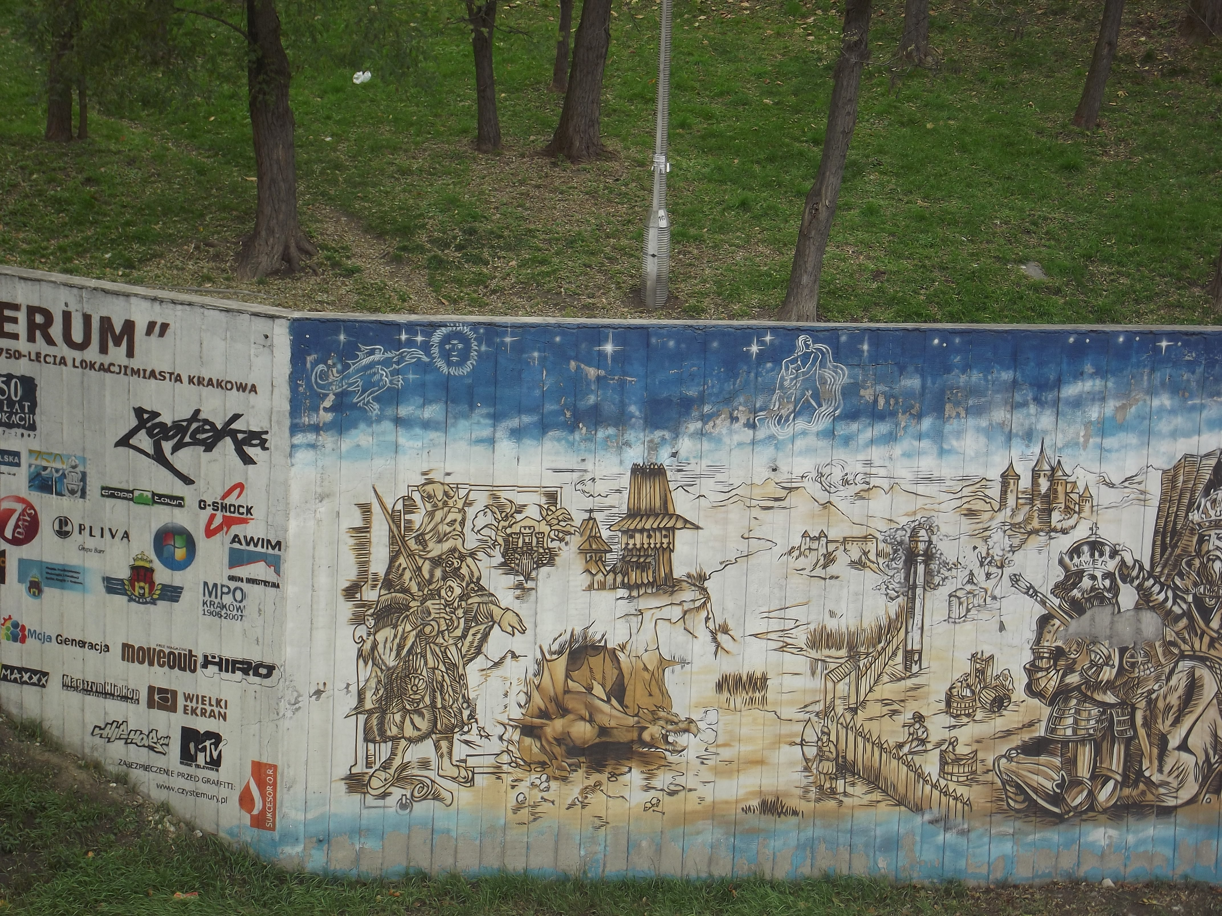 Early middle ages of Cracow on mural Silva Rerum